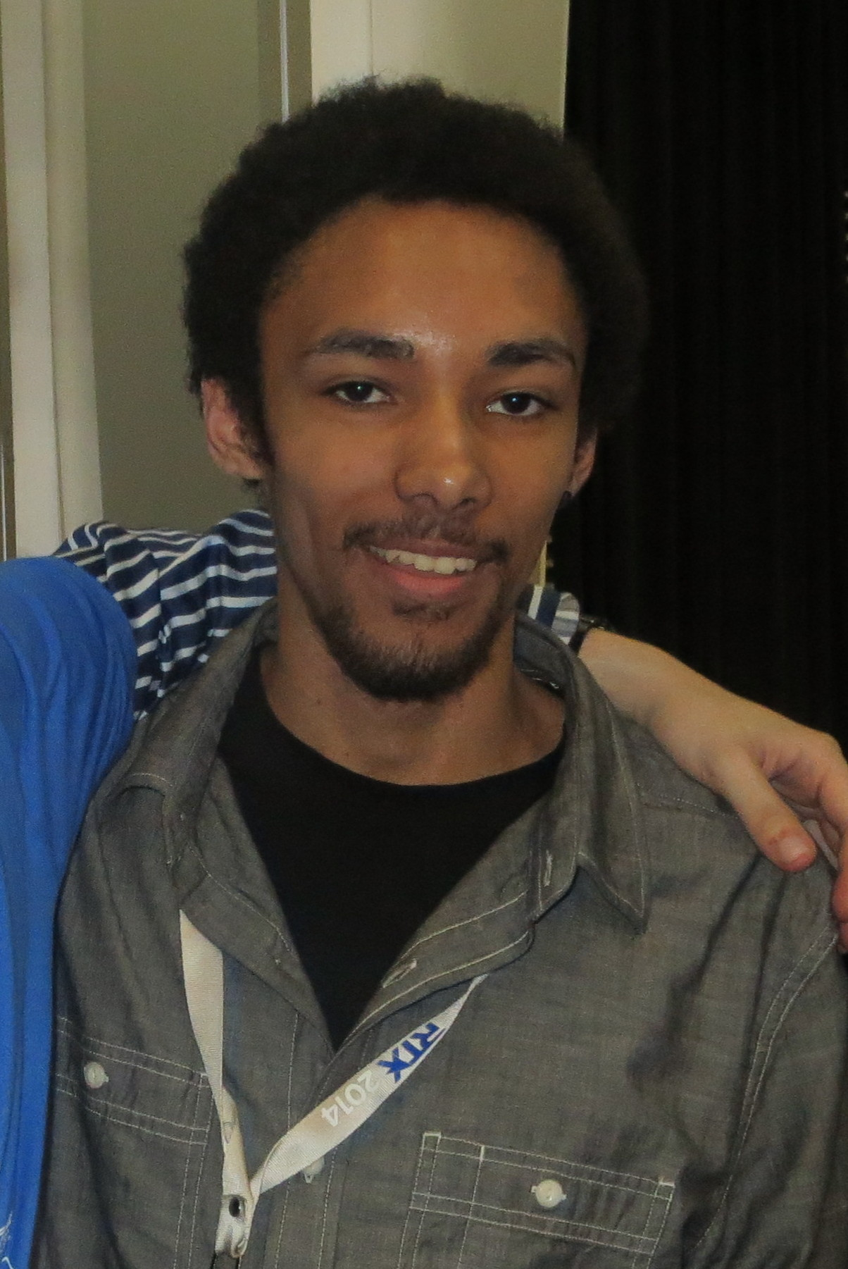 Dominic Dobrzensky and Jordan Scott, creator of the RWBY game